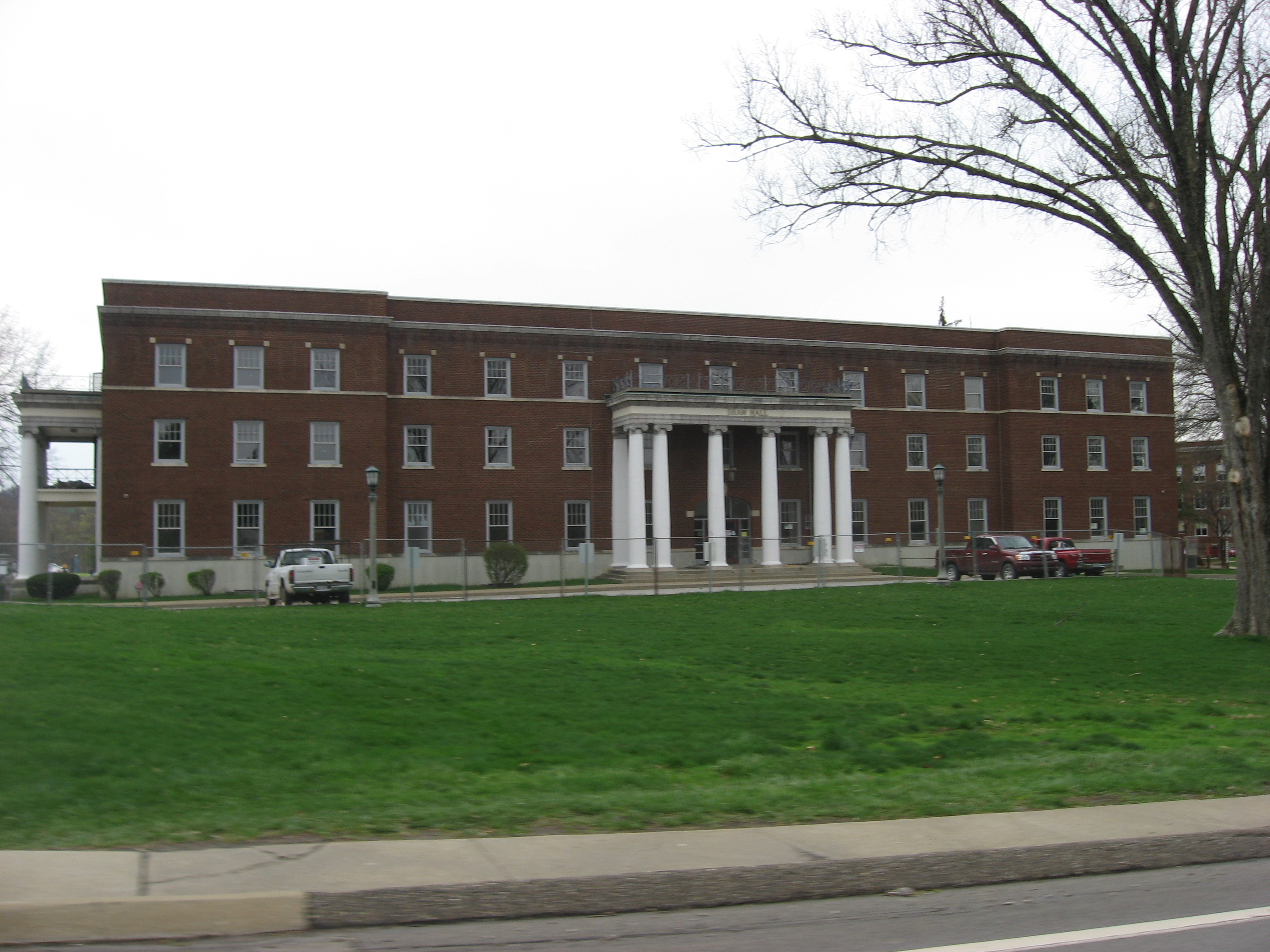 Front of Shaw Hall on the campus of West Liberty University in West Liberty, West Virginia, United States. Built in 1919, it is listed on the National Register of Historic Places.